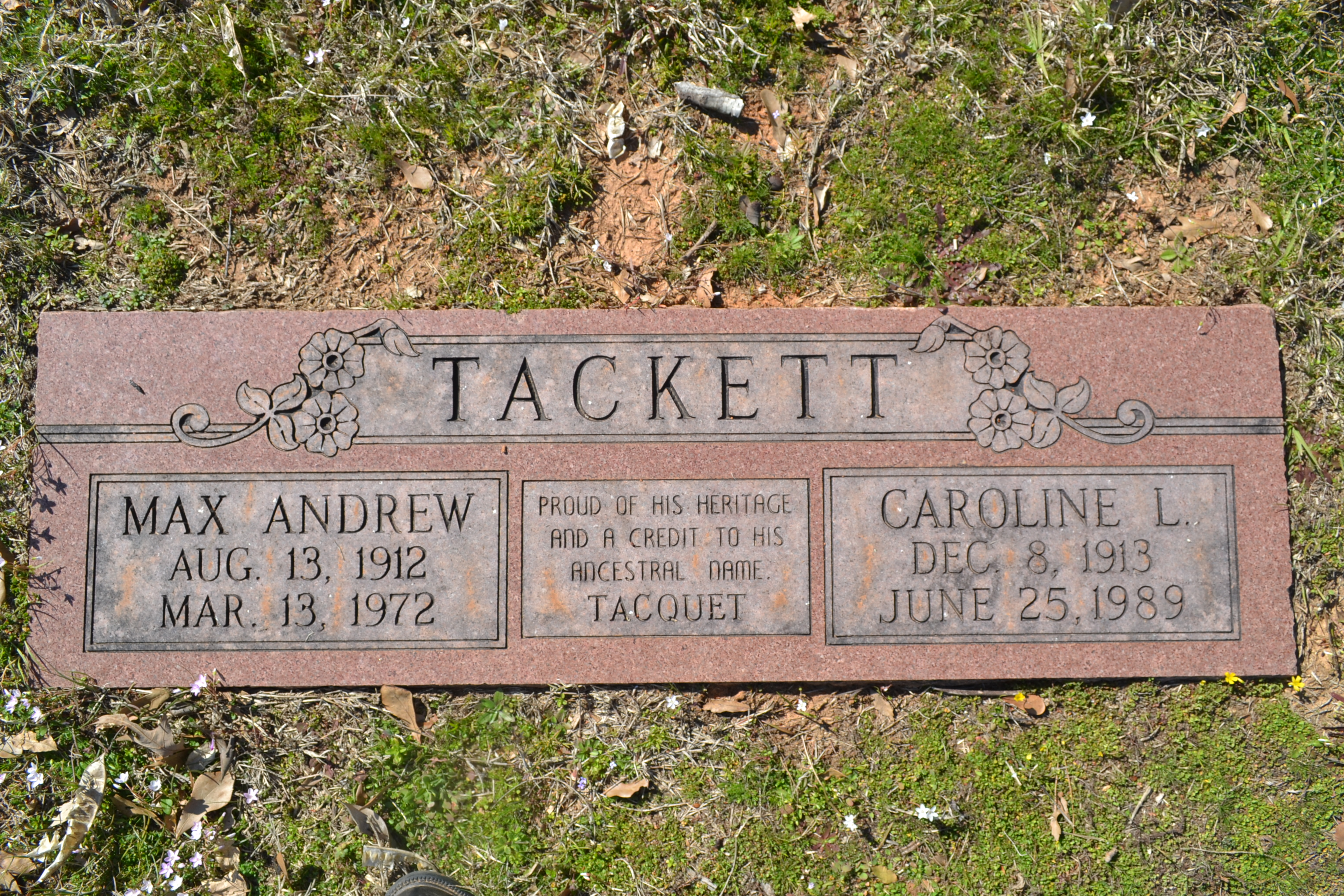 Max Andrew Tackett's grave marker in Rondo Memorial Park